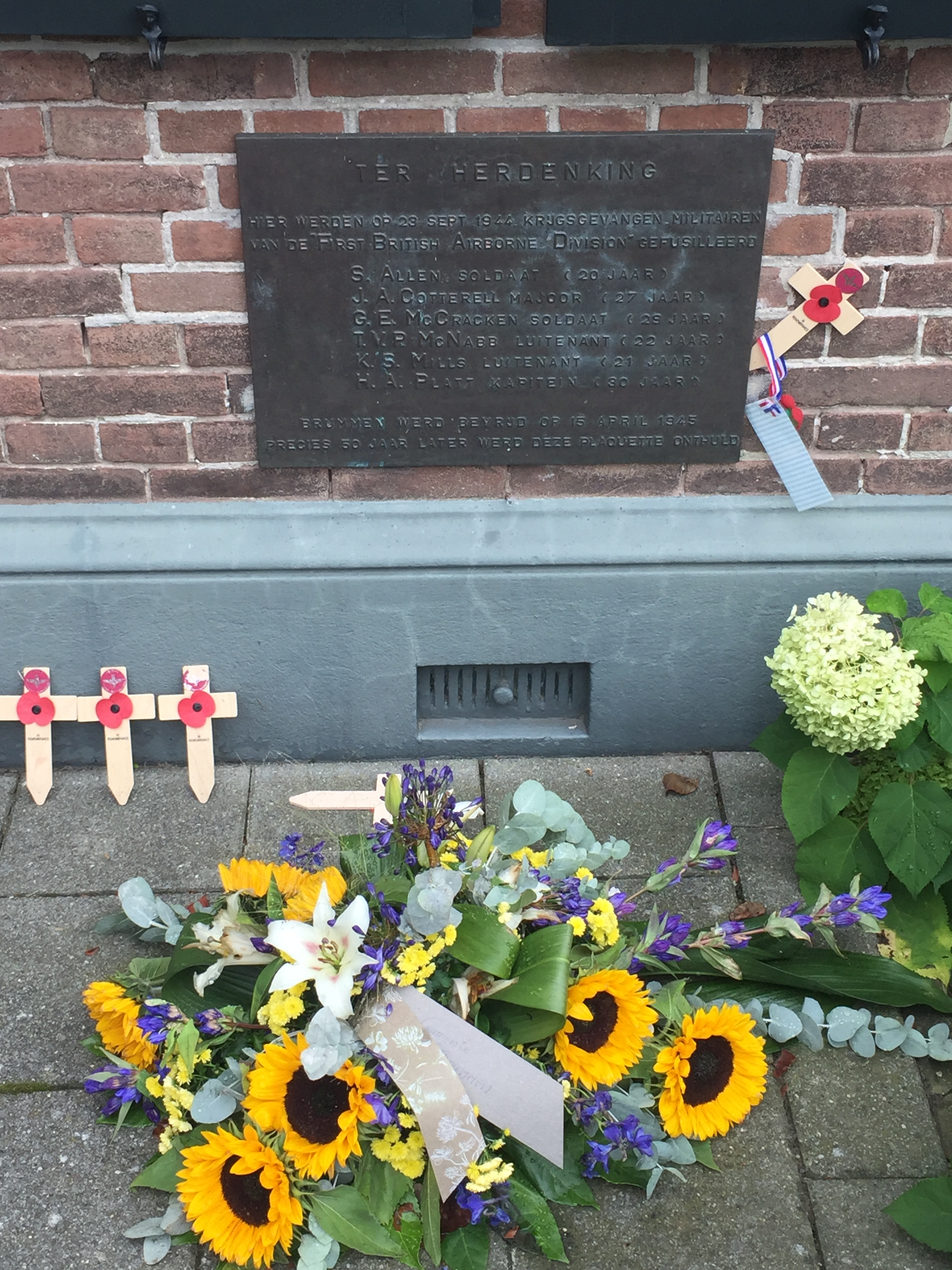 on 23 september 1944 a young Schutzstaffel-member shot six British POW, who were taken caputure during the Battle of Arnhem, and one German soldier who guarded them. He did this after two POW's, including major Tony Hibbert, tried to escape when the truck were they were in slowed down in front of post office of Brummen. The monument was build in 1994, the last official memorial was in 2019